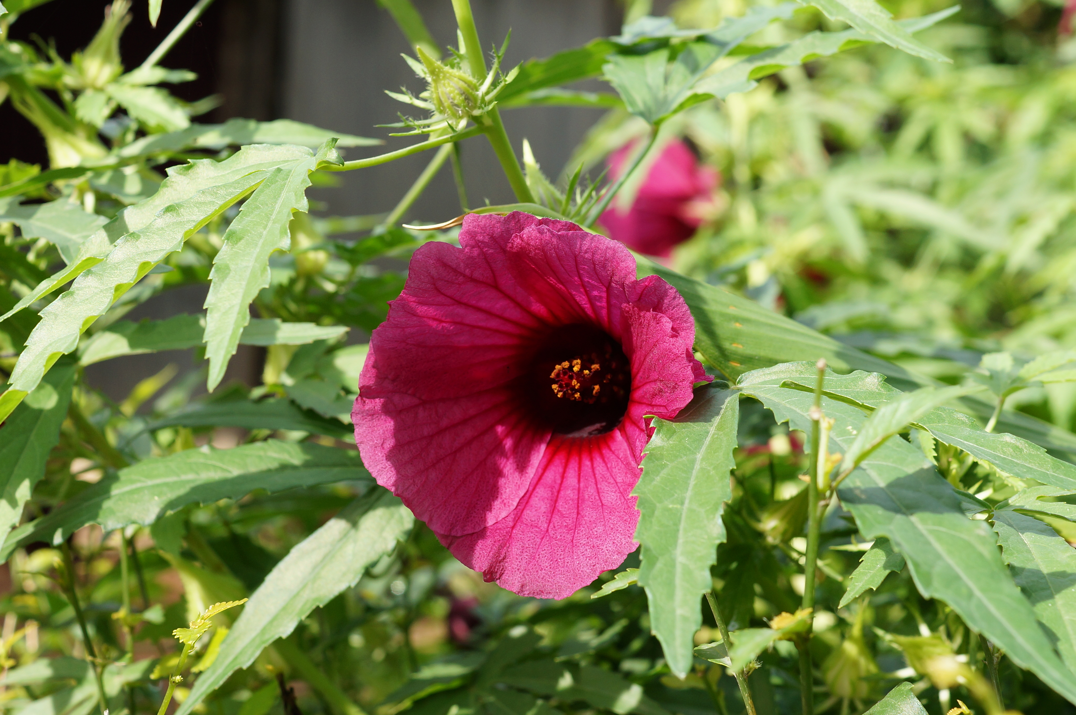 Monarch rosemallow